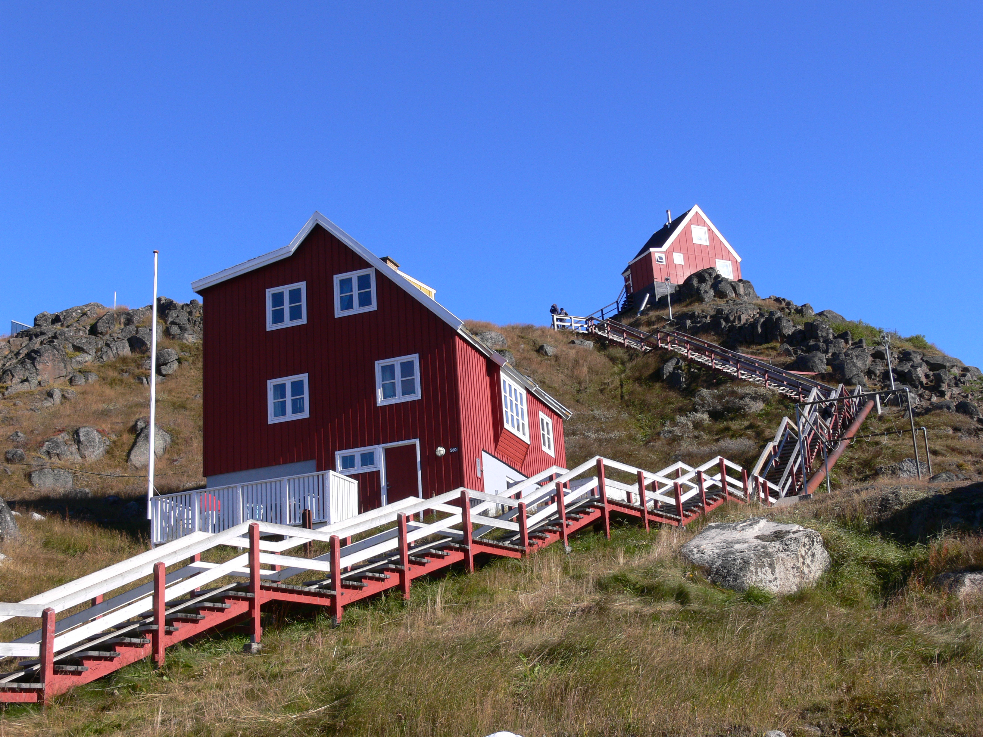 Houses on hilltop in township of Qaqortoq (Julianehab) Greenland